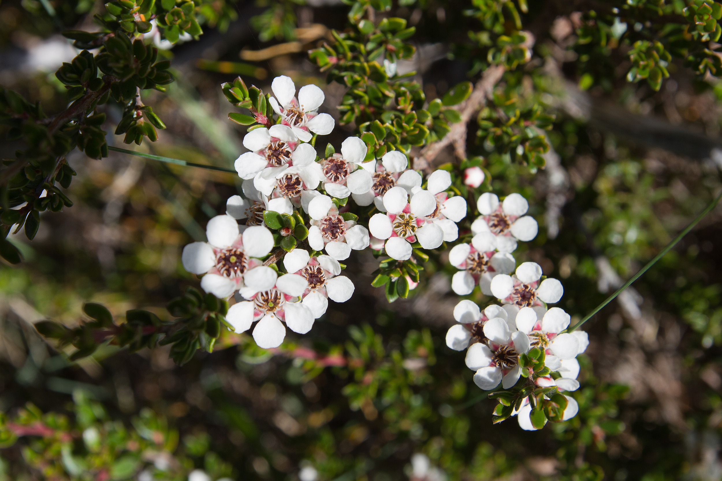 Leptospermum rupestre, Walls of Jerusalem National Park, Tasmania, Australia